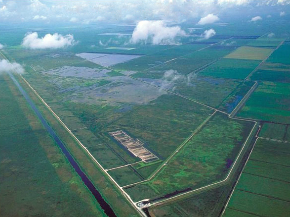 A stormwater treatment area in the Northern Everglades surrounded by sugarcane fields